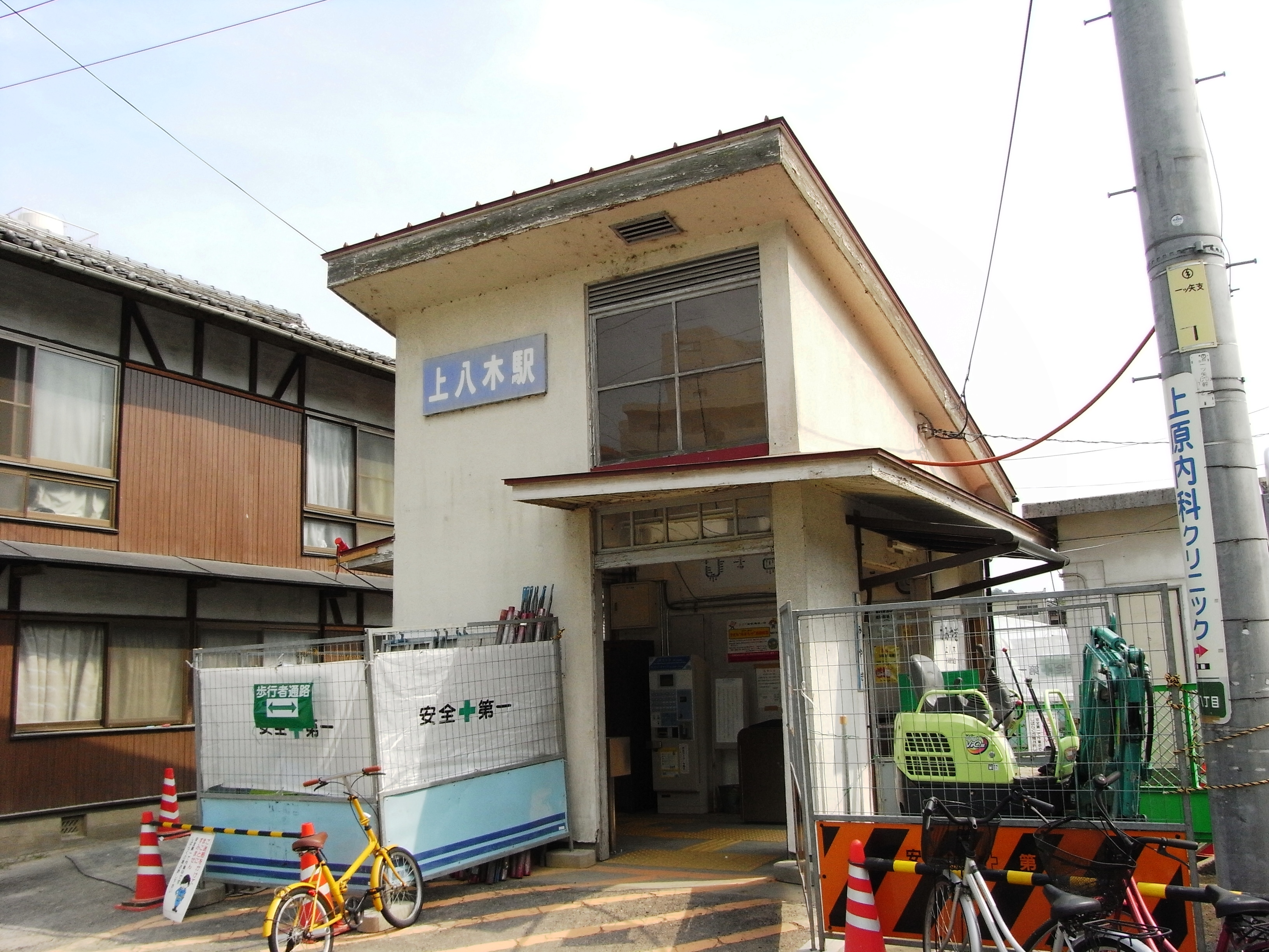 Kami-Yagi Station